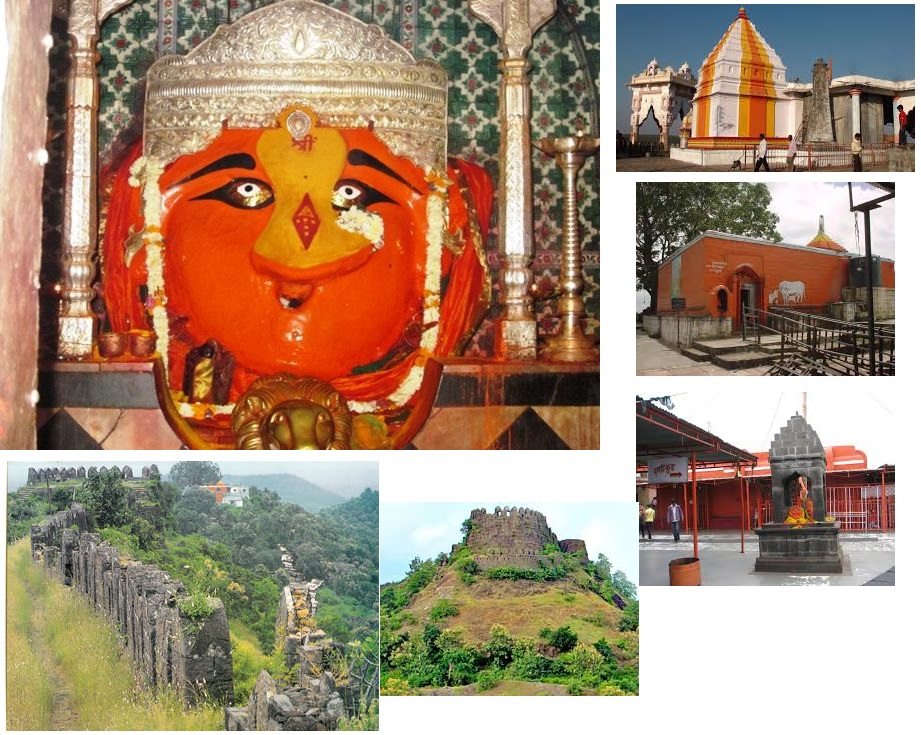 All famous temples and forts in Mahur